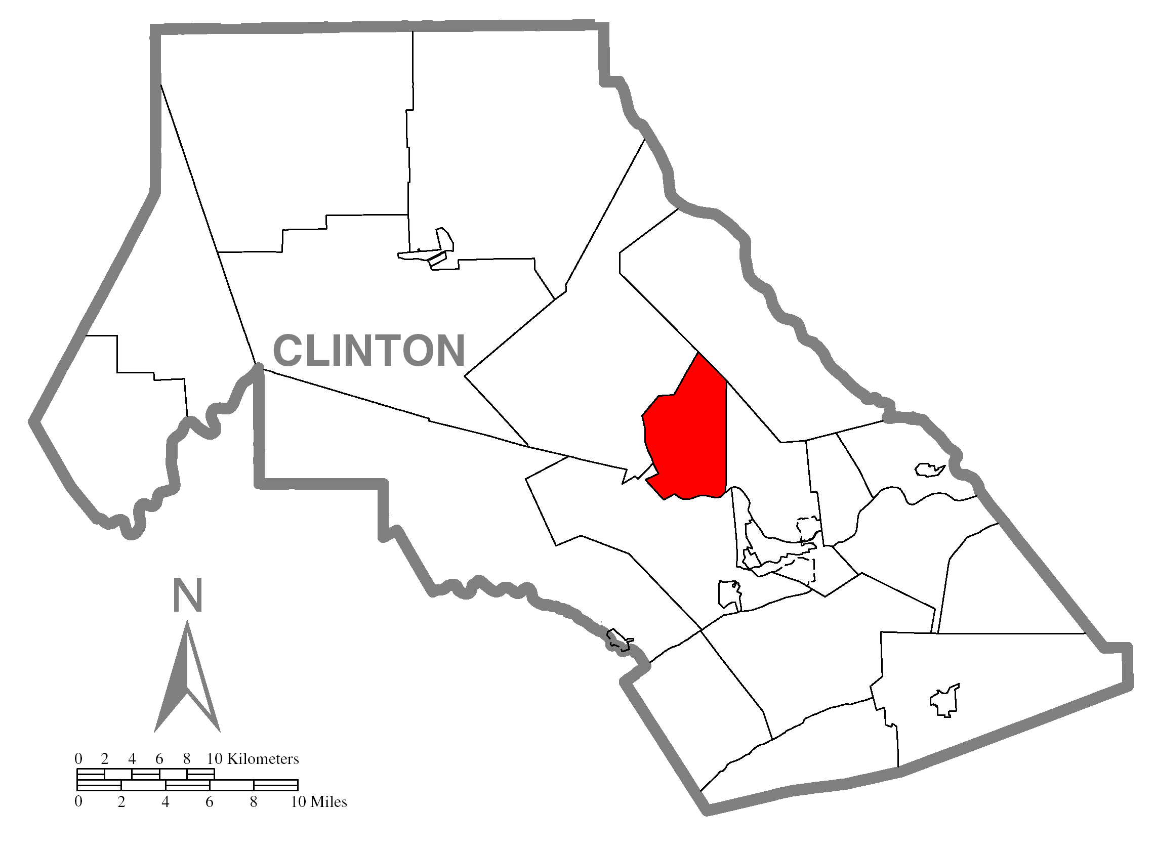 A map of Clinton County showing Colebrook Township, Pennsylvania (alternate) highlighted on the map.